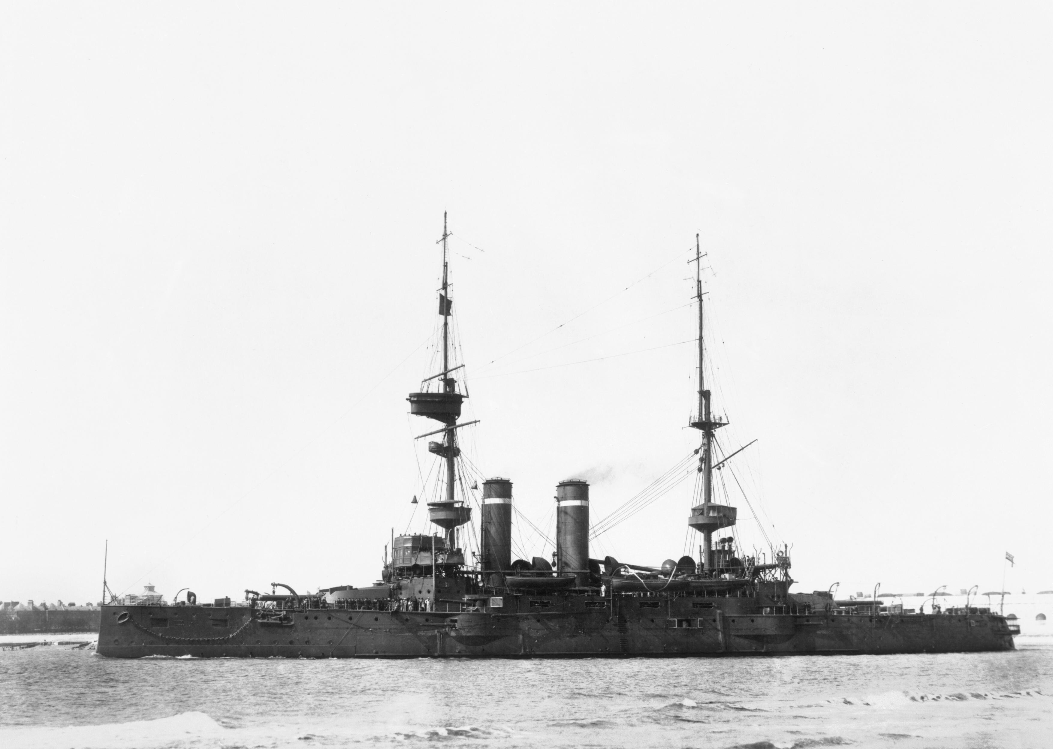 British Ships of the First World War HMS IRRESISTABLE. Mined and then sunk by Turkish guns in the Dardanelles, 18 March 1915.